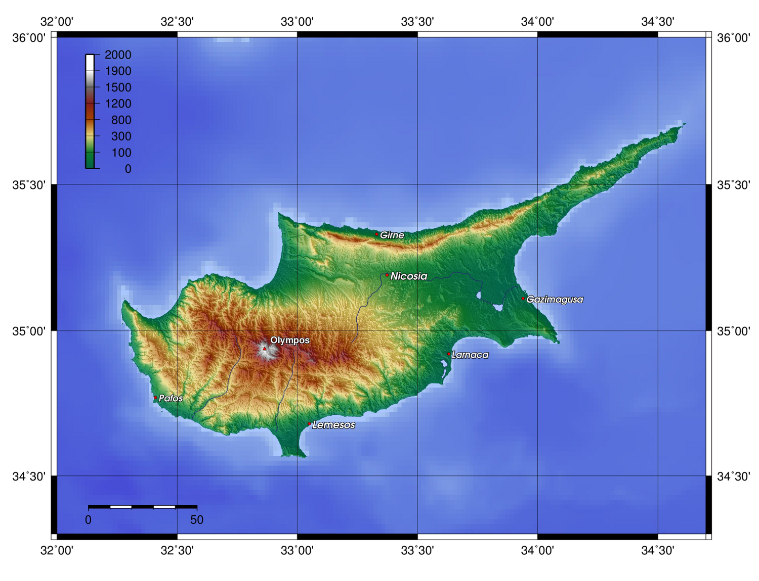 Description: Topography of Cyprus, created with GMT 4.1.3